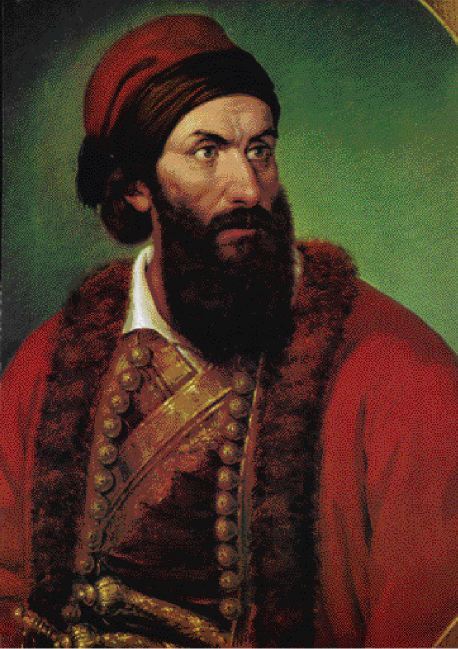 Papaflessas